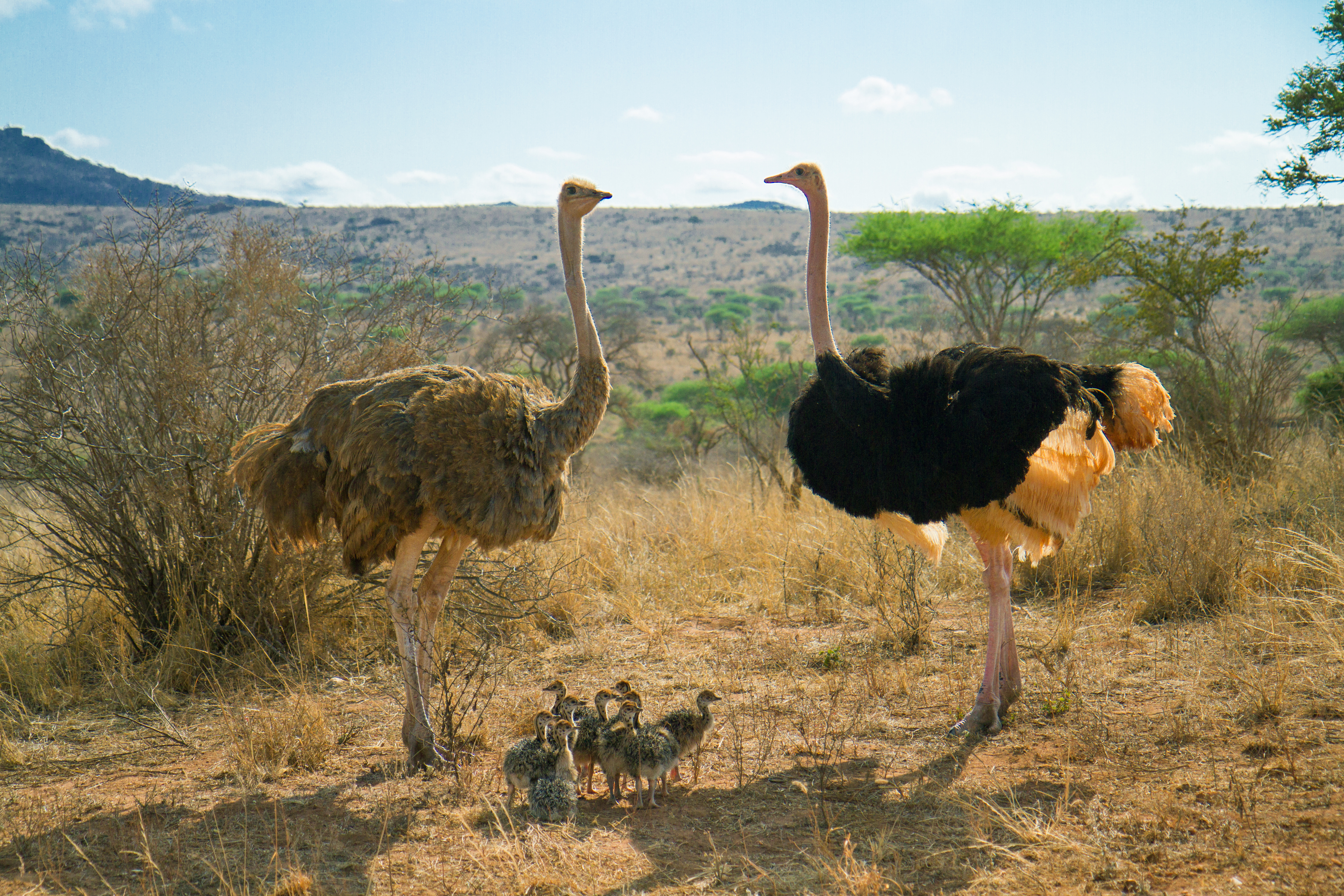 Oh god, the cuteness, it hurts. I'll be adding a couple of pictures a day for the next few weeks. Check out the developing set here: Kenya 2013